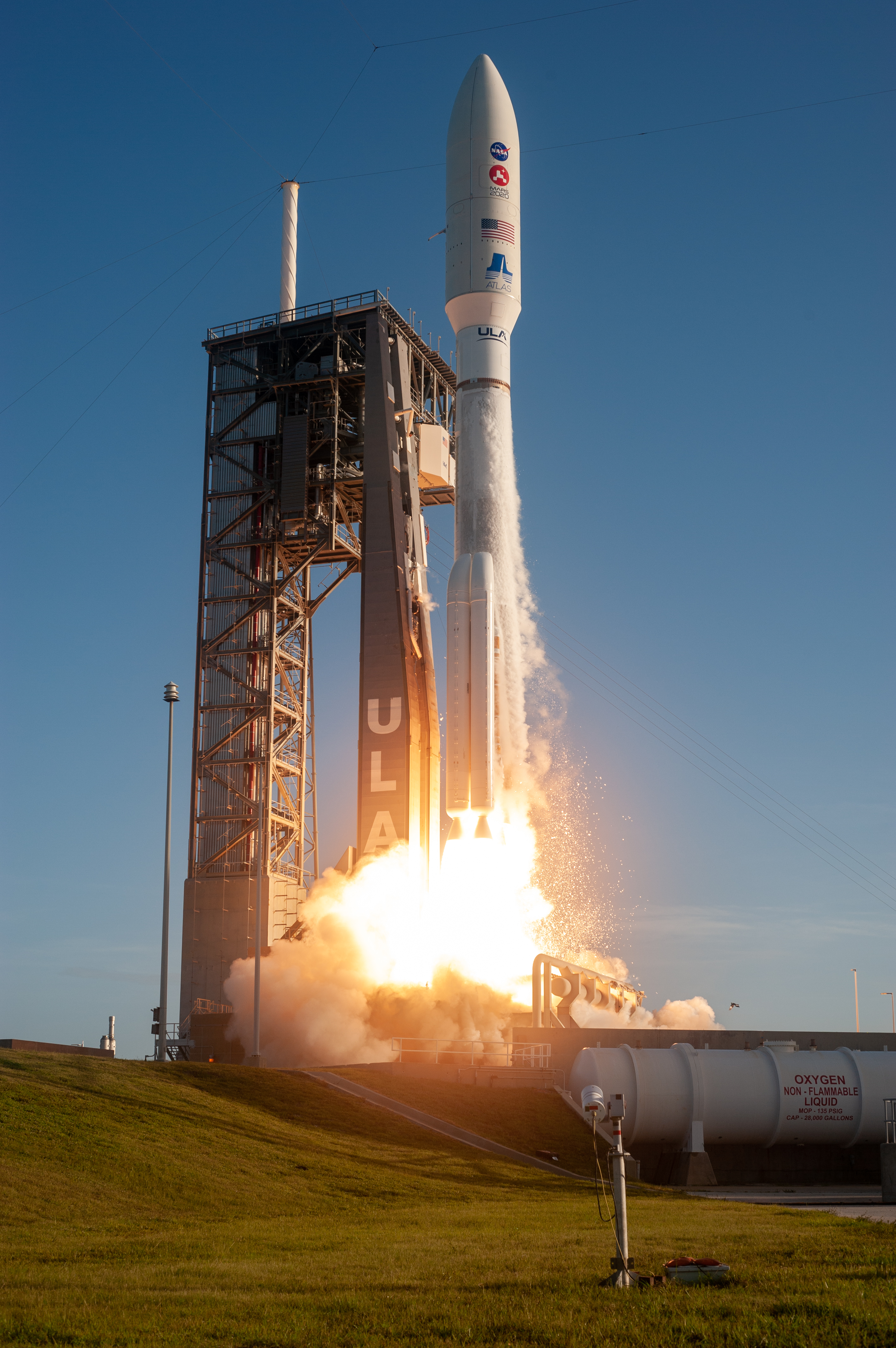 A United Launch Alliance Atlas V 541 rocket lifts off from Space Launch Complex 41 at Cape Canaveral Air Force Station in Florida on July 30, 2020, at 7:50 a.m. EDT, carrying NASA’s Mars Perseverance rover and Ingenuity helicopter. The rover is part of NASA’s Mars Exploration Program, a long-term effort of robotic exploration of the Red Planet. The rover’s seven instruments will search for habitable conditions in the ancient past and signs of past microbial life on Mars. The Launch Services Program at Kennedy is responsible for launch management.